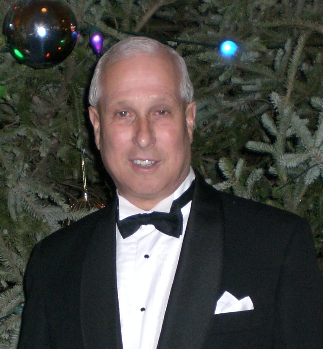 Photo of Dr. Stuart S. Malawer